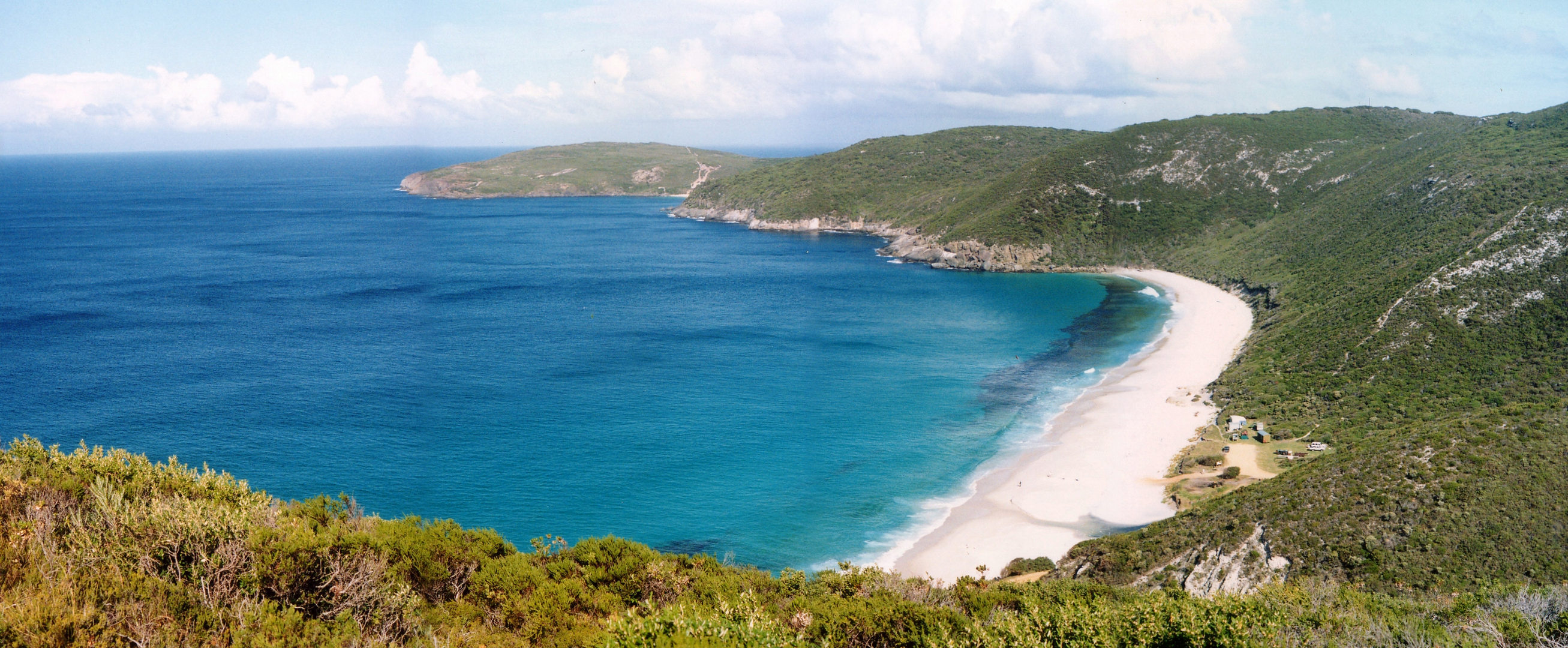 2002 - View across Shelley Beach to West Cape Howe, WA